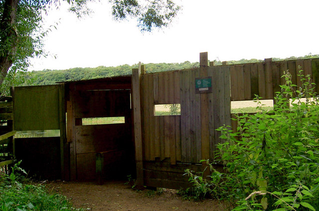 Heron screen overlooking Sprotborough flash.